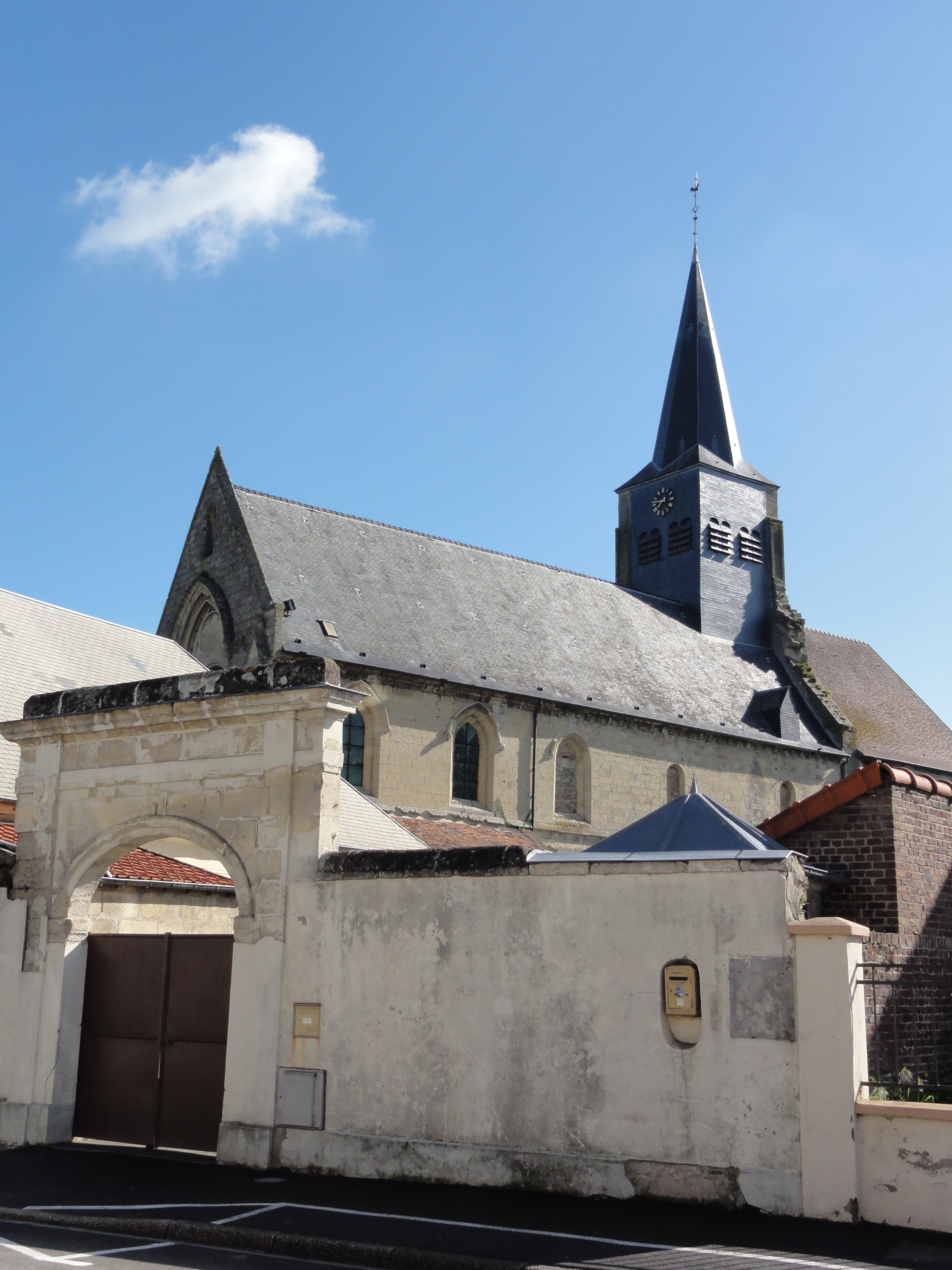 Crépy (Aisne) église Notre-Dame